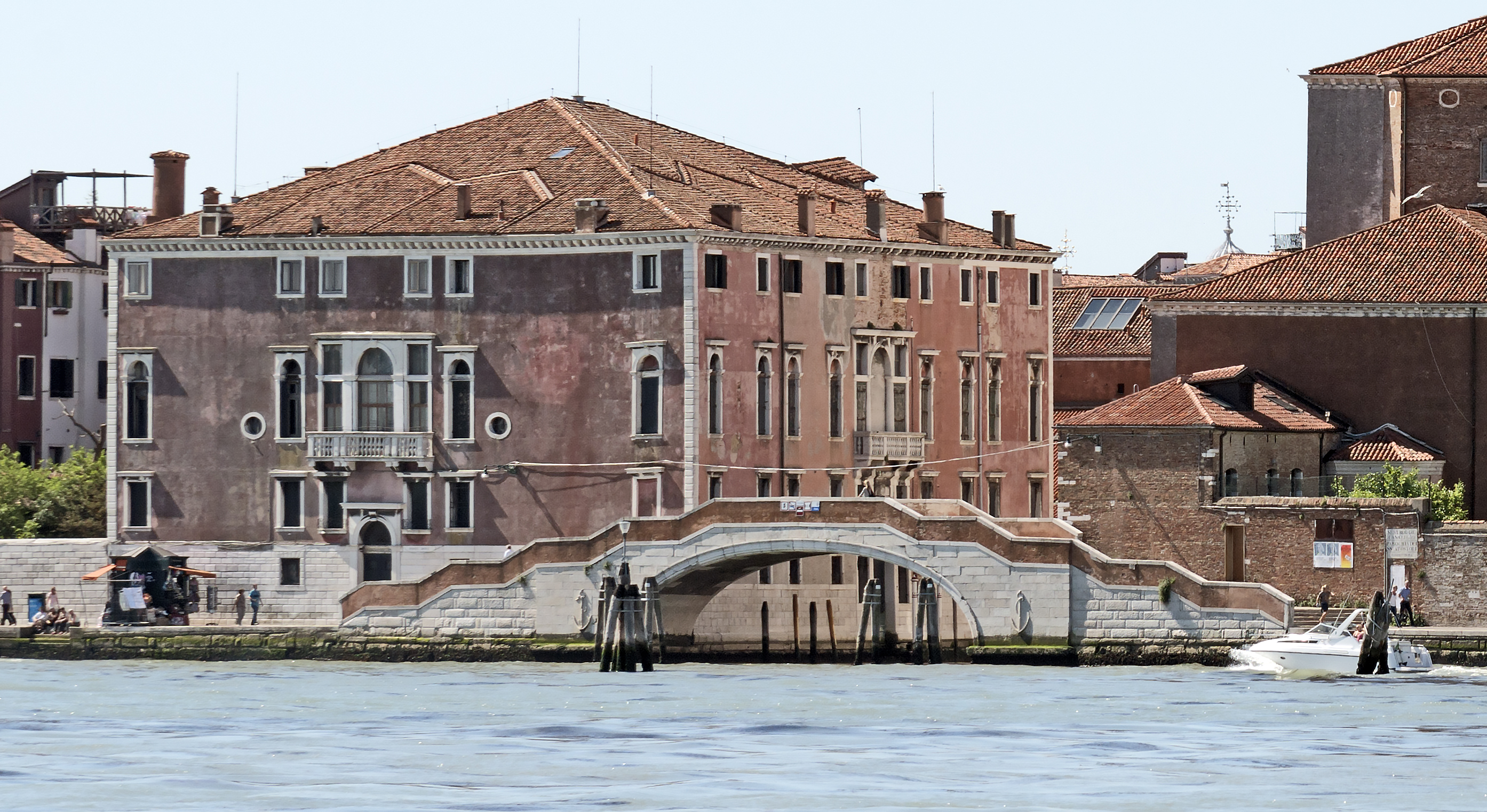 Palazzo Donà delle rose and Ponte Donà in Venice – seen from the northern part of the lagoon.